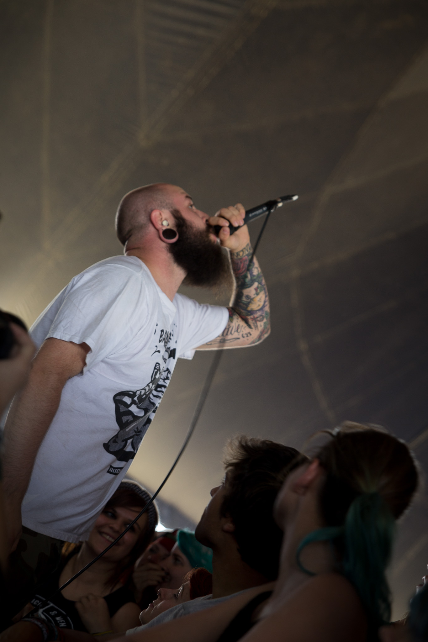 Being as an Ocean playing on the With Full Force Festival, July 2014